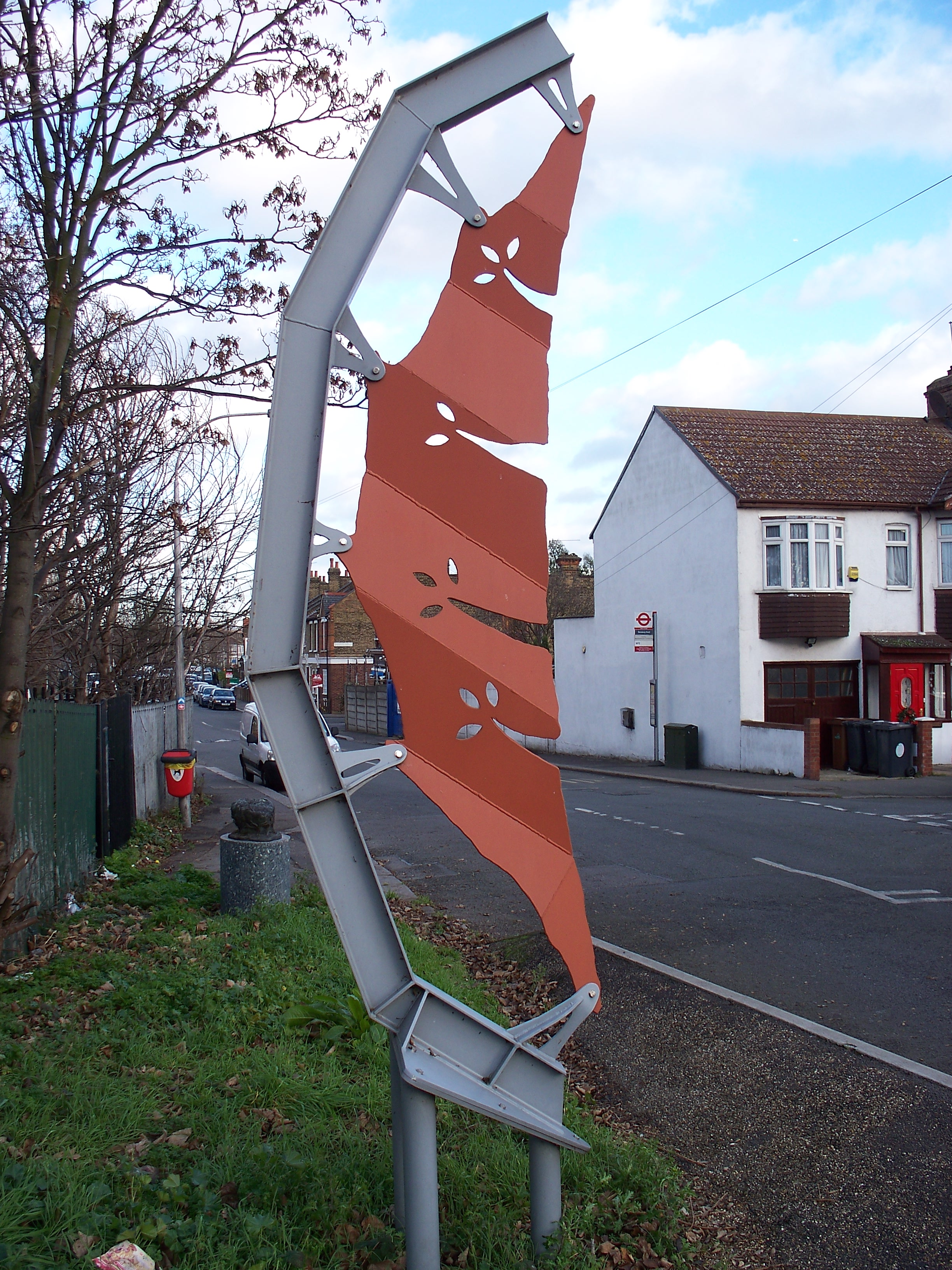 Jon Mills "Split Leaf" scuplture, Walthamstow Marshes, London